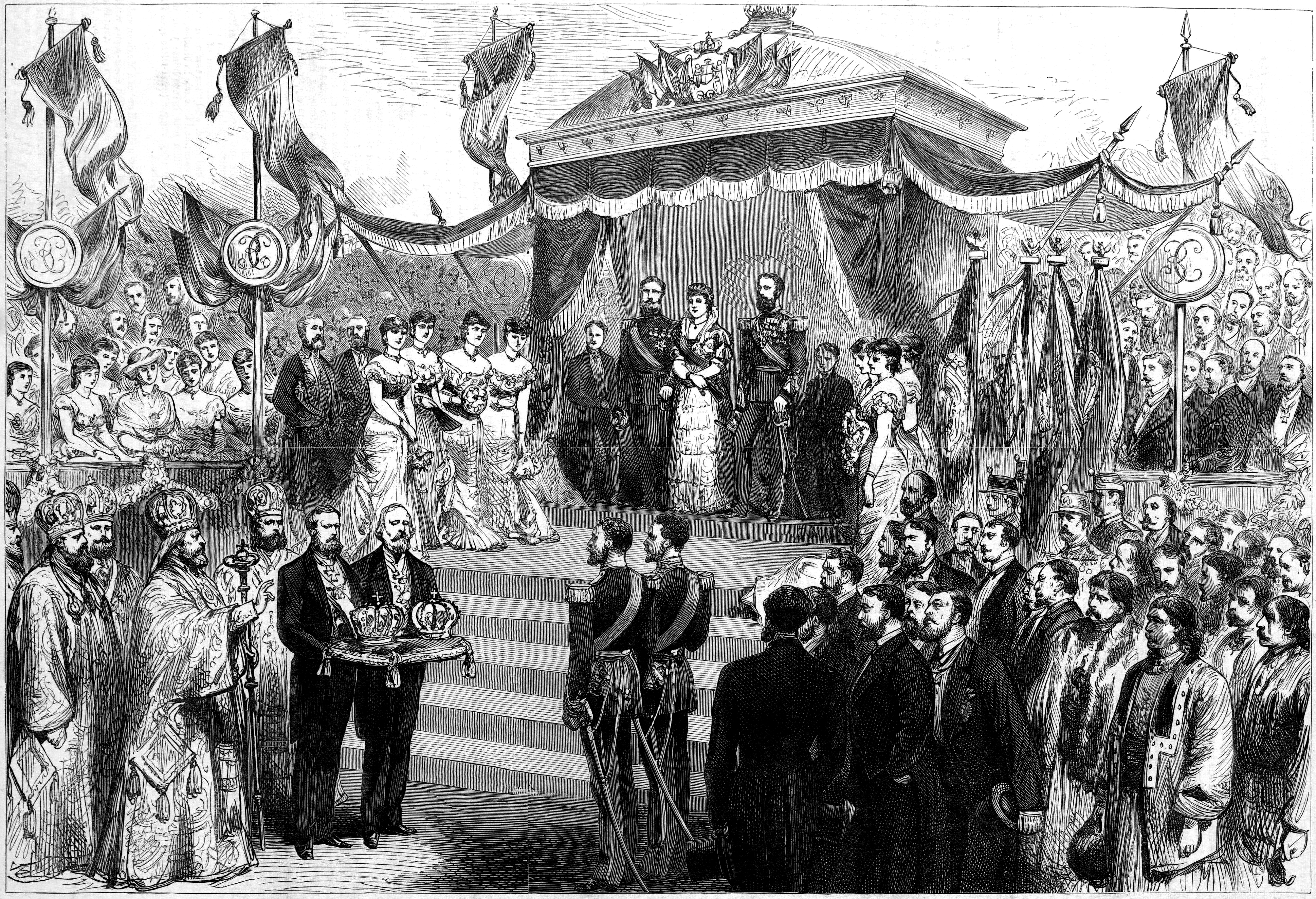 The coronation of Carol I and Elisabeth of Romania (10.V.1881)